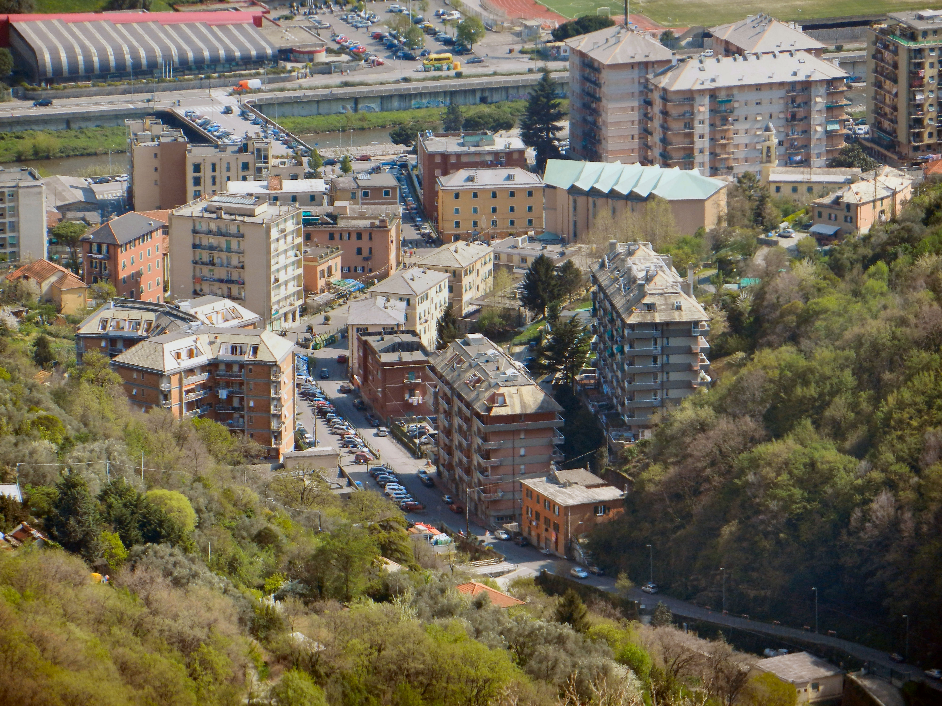 Genoa (Italy), view of San Gottardo